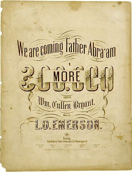 Sheet music cover for "We Are Coming Father Abra'am 300,000 more" *"We Are Coming, Father Abra'am 300,000 More", a poem written by James S. Gibbons, was set to music by eight different composers, including Stephen Foster. William Cullen Bryant published one version (with music by Luther Orlando Emerson (1820-1915). Bryant's newspaper originally published the poem and, because it was originally published anonymously, many assumed it was his, and it was widely republished, so Bryant issued a statement denying his authorship. The poem and music came in response to a call by Abraham Lincoln on July 1 for volunteers to fight the American Civil War. Source of information: Silber, Irwin, Songs of the Civil War, p 92, Published by Courier Dover Publications, 1995 ISBN 9780486284385page , retrieved December 6, 2008